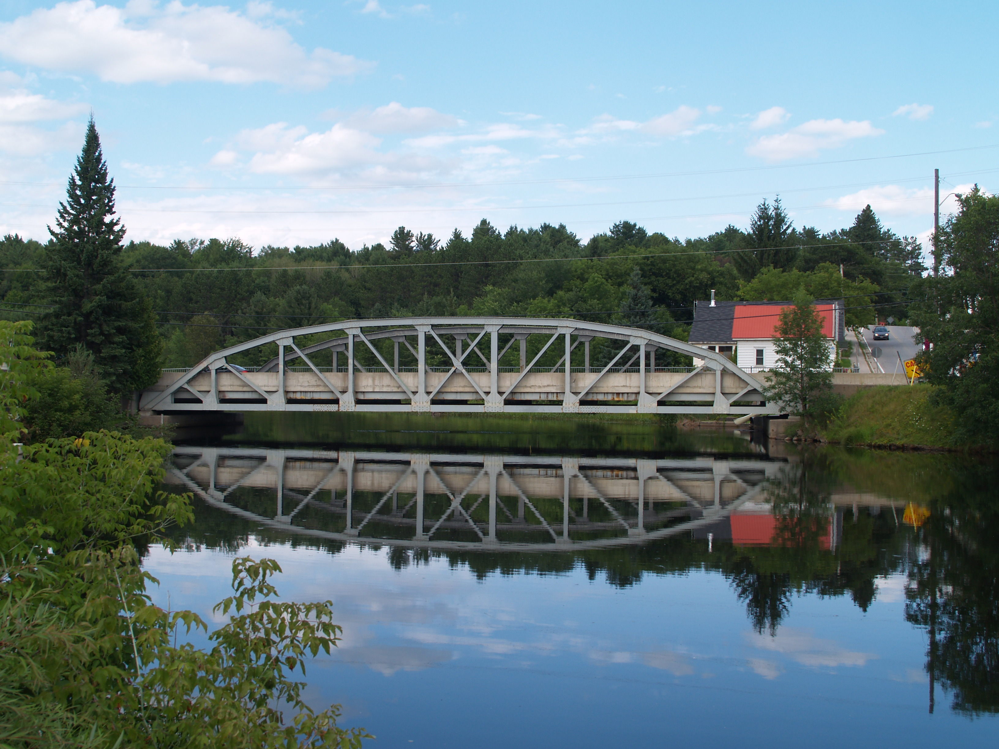 An old steel arch bridge carries Kawartha Lakes Road 45 and 121 through Kinmount, Ontario